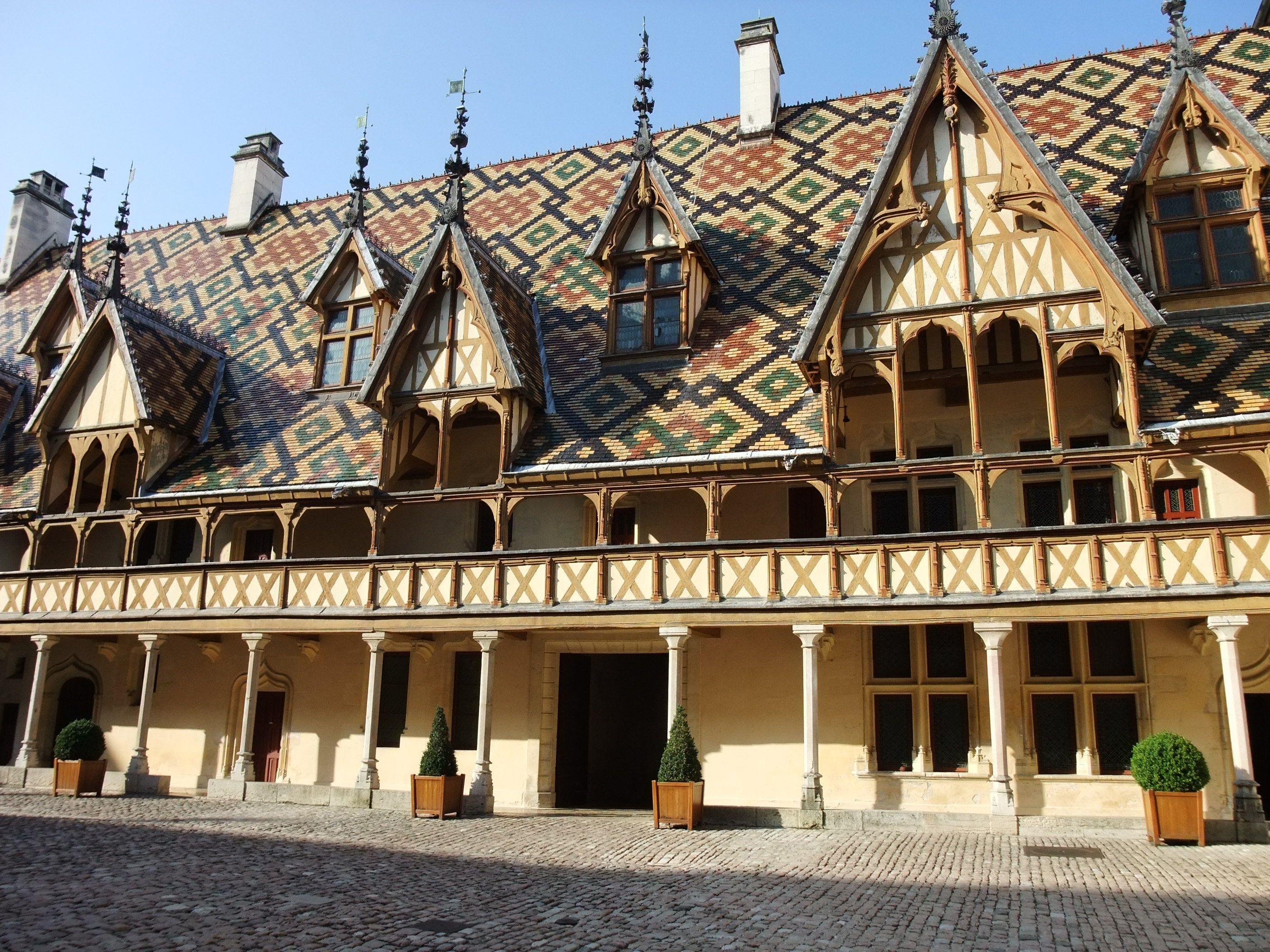 Hôtel-Dieu of Beaune in Burgundy, France